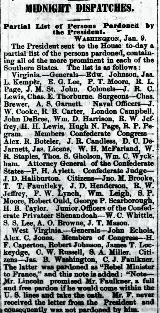 This is a newspaper article from the Wilmington (NC) Daily Dispatch from January 10, 1867, containing the names of former Confederates from Virginia and West Virginia who have received presidential pardons.